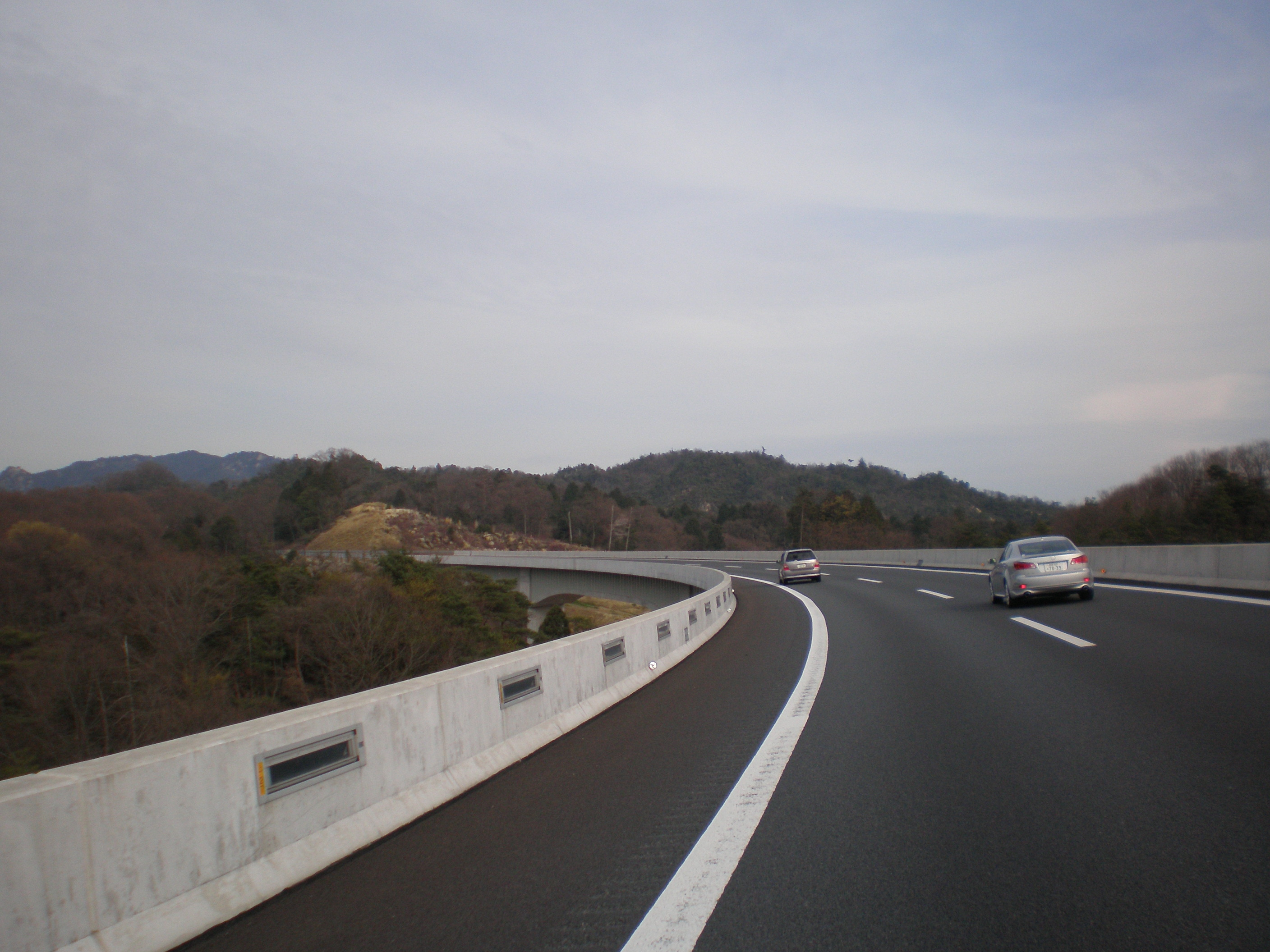 Otsu A lamp bridge in Shin-Meishin Expressway. I took this image at Kamitanakamimaki-cho Otsu City Shiga Pref., Japan.